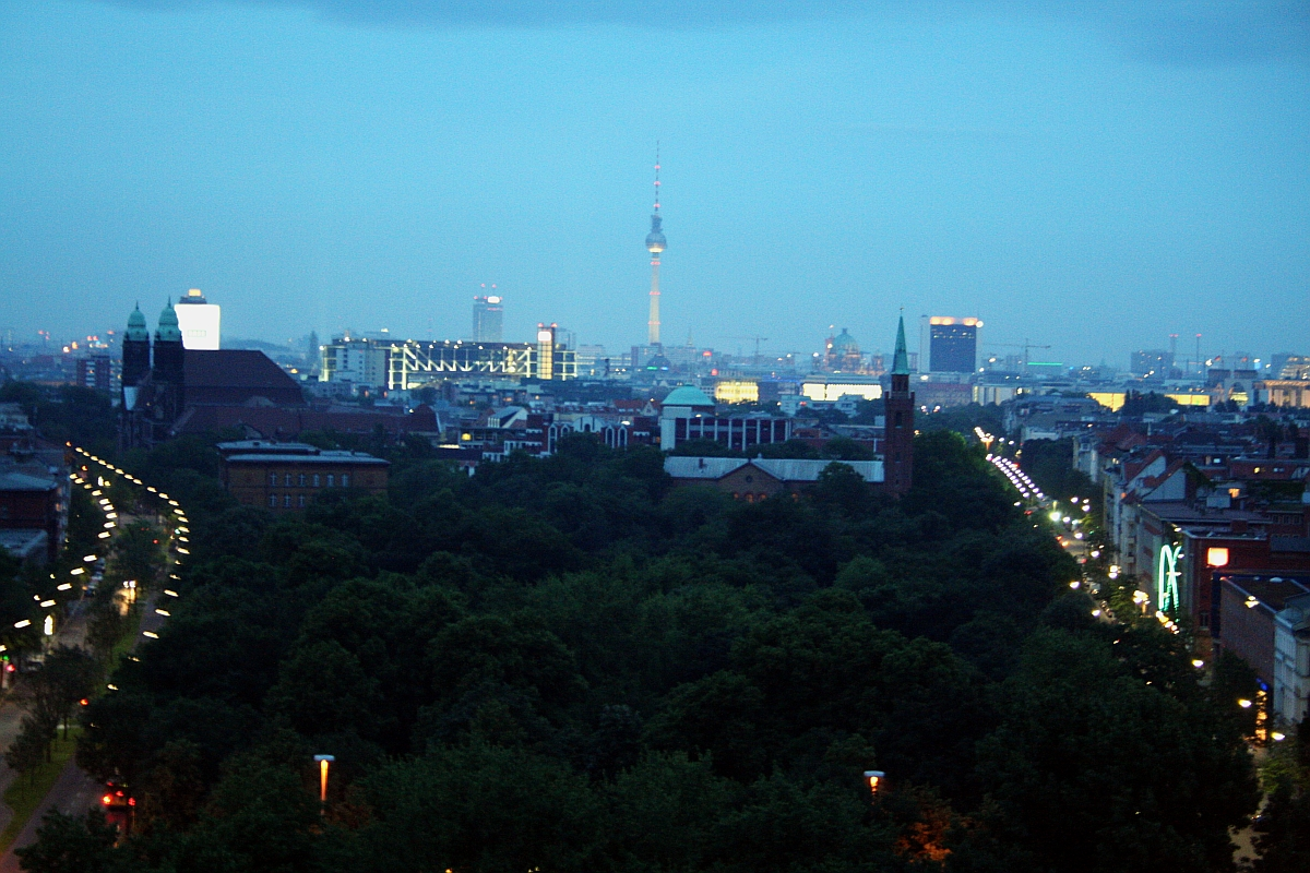 View of Kleiner Tiergarten in Berlin-Moabit from the Heilandskirche. Left is the Turmstraße on the right hand Alt-Moabit.